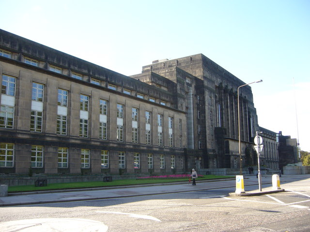 St. Andrew's House, Regent Road Art deco government offices designed by Thomas Smith Tait and built in 1937 to house the Secretary of State for Scotland and his departments. It stands on the site of the demolished Calton Gaol.